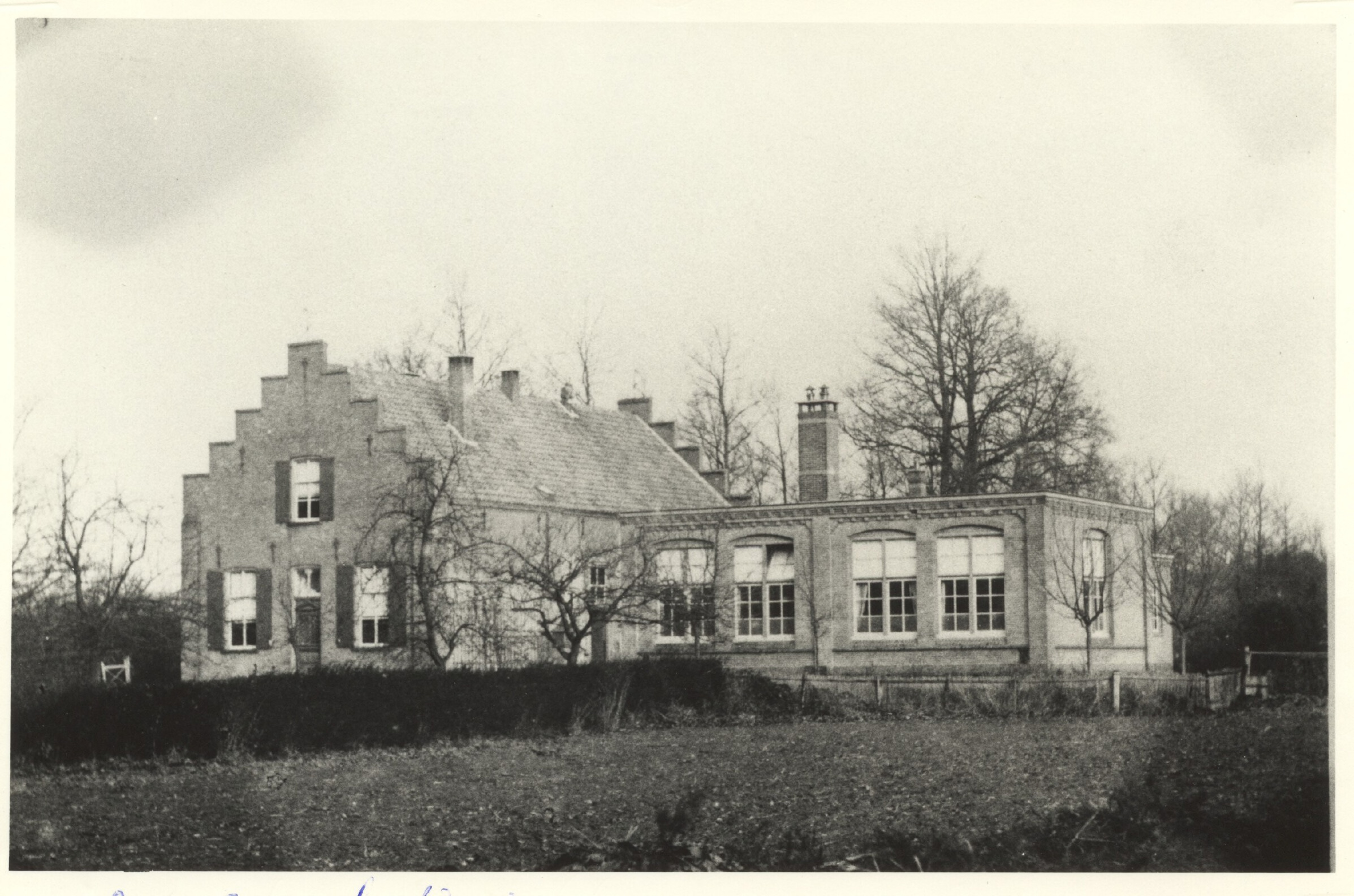 Roman-Catholic school with the headmasters' residence, later Ludgerhouse, Vierakker, Netherlands, approximately 1875. Photo Collection Lamers, Heritagecenter of Zutphen, id.nr. 3020_0239_0154